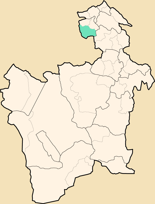 Uncia Municipality, Potosí Department